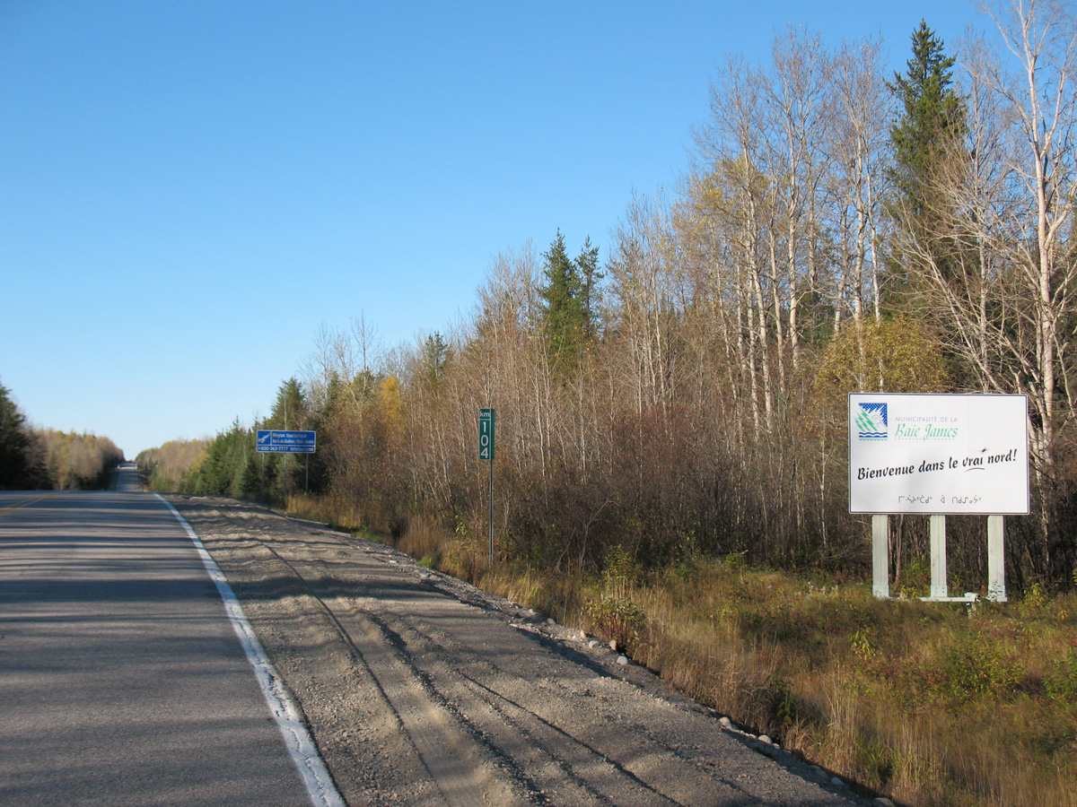 This sign is located alone Highway 109 (North), heading to the James Bay Road. The Municipality of James Bay begins over an hundred kilometres before the James Bay route begins.